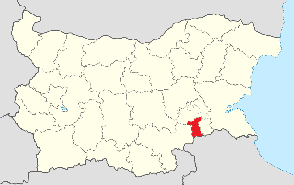 Location map of Elhovo Municipality within Bulgaria and Yambol Province.